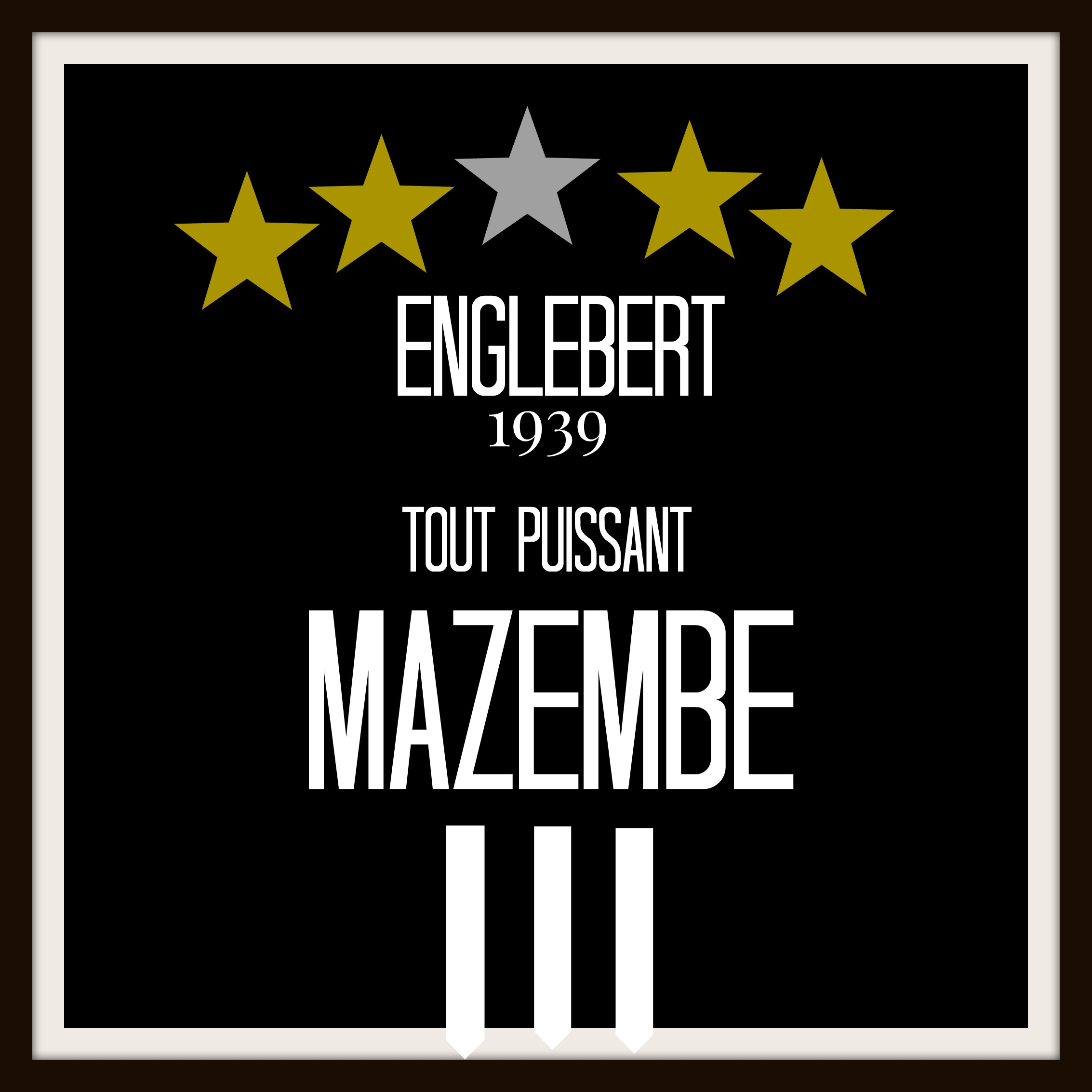 Fantasy football flag for TP Mazembe